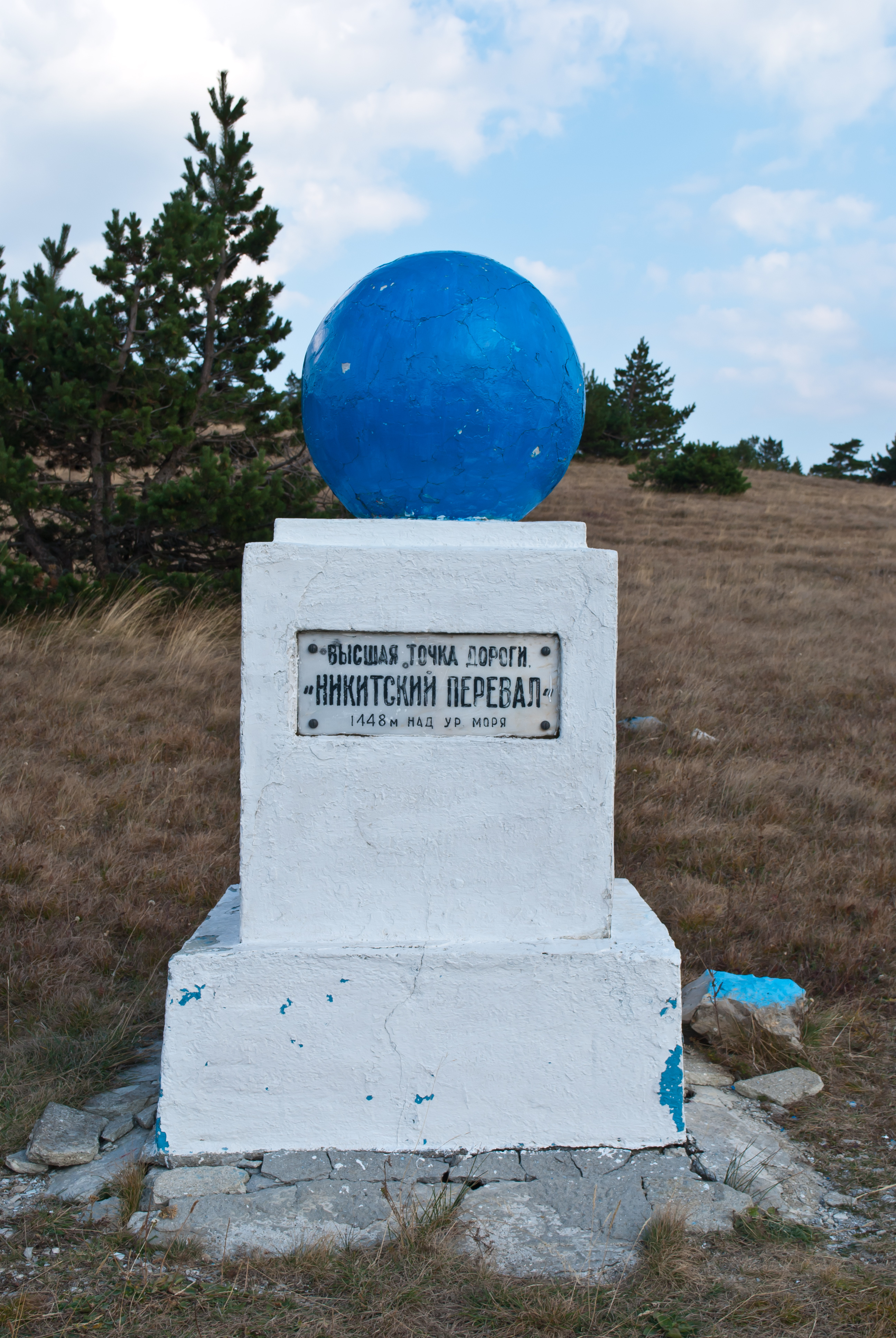 The Nikitskiy pass on the Romanov Road in Crimea